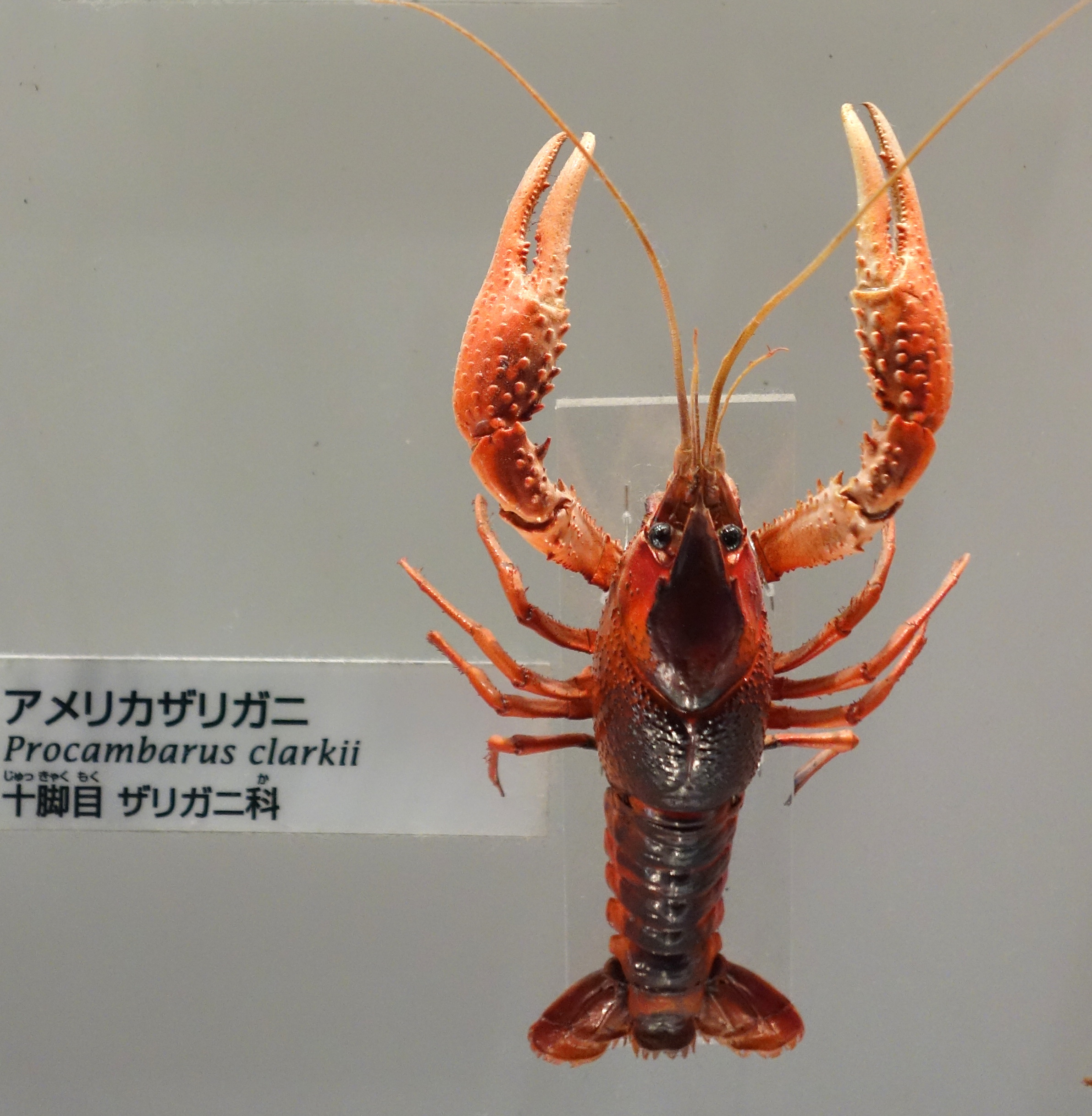 Exhibit in the National Museum of Nature and Science, Tokyo, Japan.